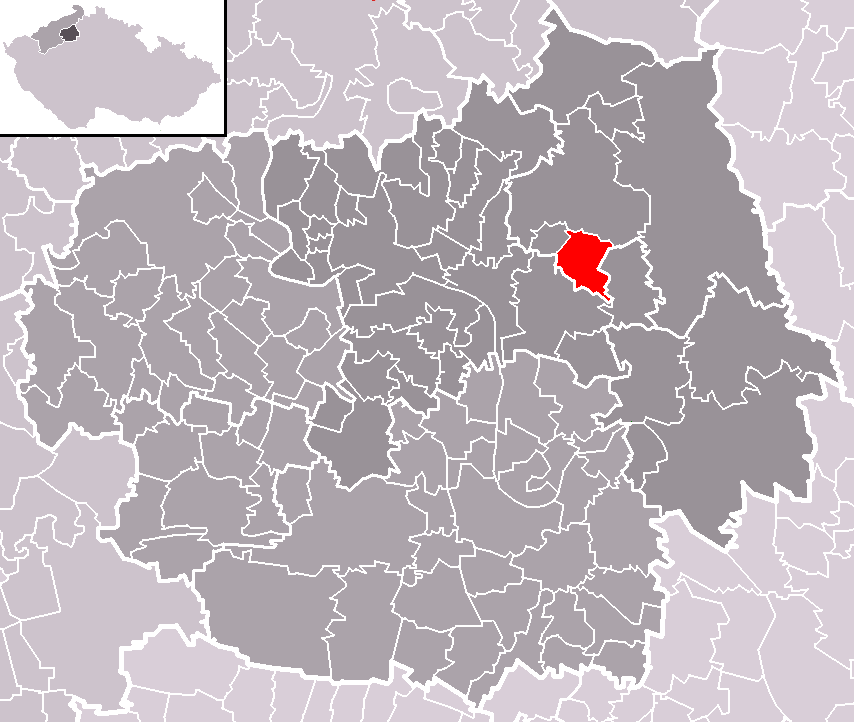 Location of Chotiněves municipality within Litoměřice District and administrative area of Litoměřice as a Municipality with Extended Competence.